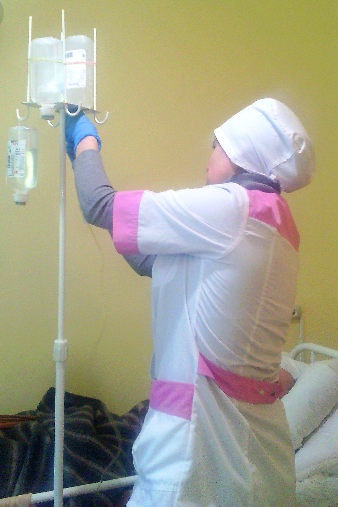 47, Lomonosova Street, Severodvinsk. Hospital.